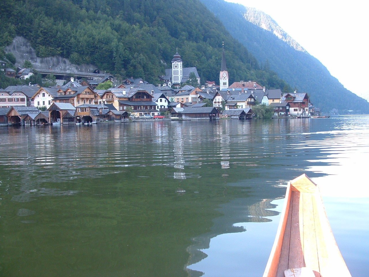 Hallstatt (Austria) Photograph by Gakuro 2005